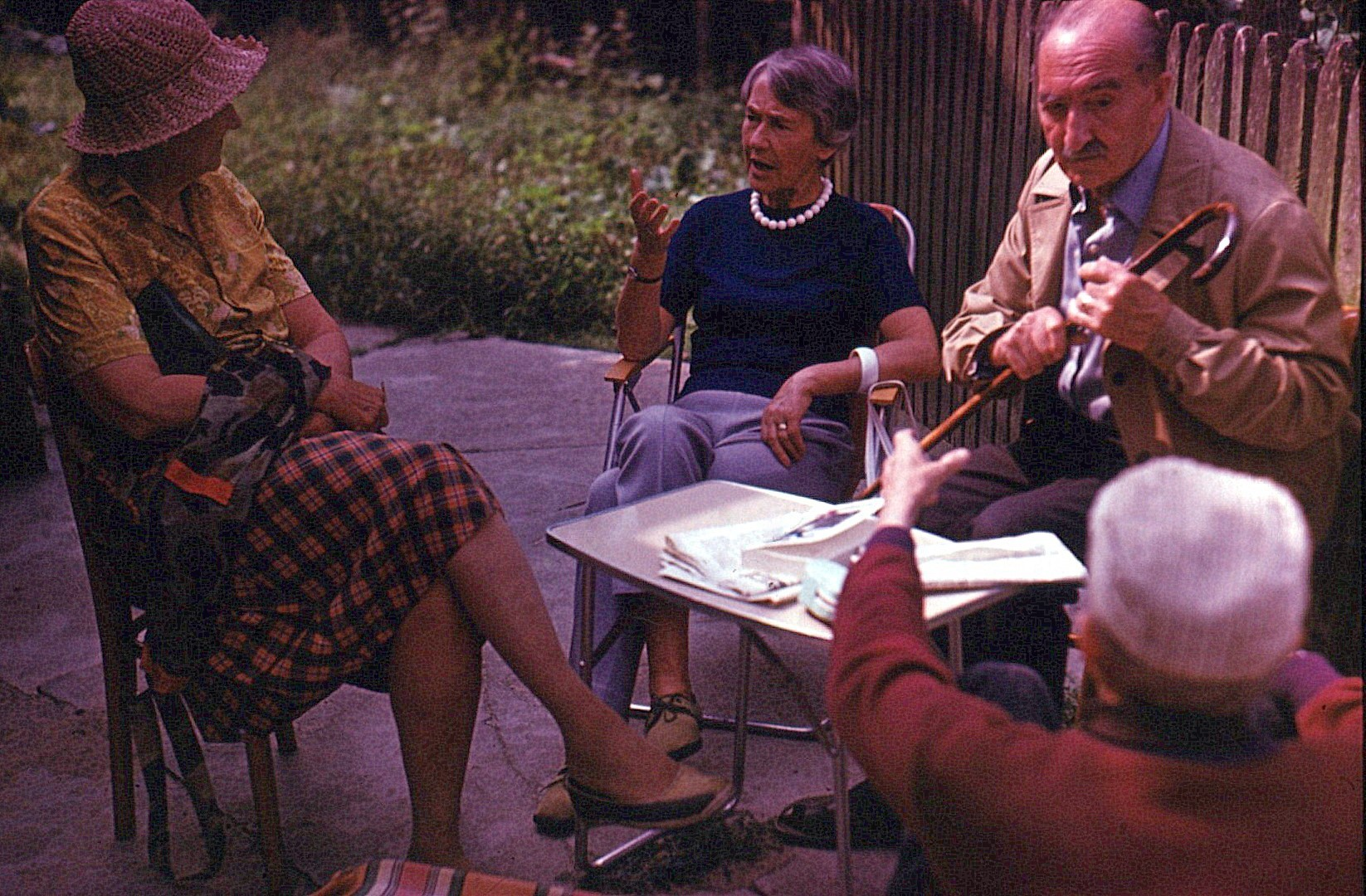 This is my own photography made during Jerzy Sienkiewicz (art historian) and his wife visit to Masłowski family in 1975